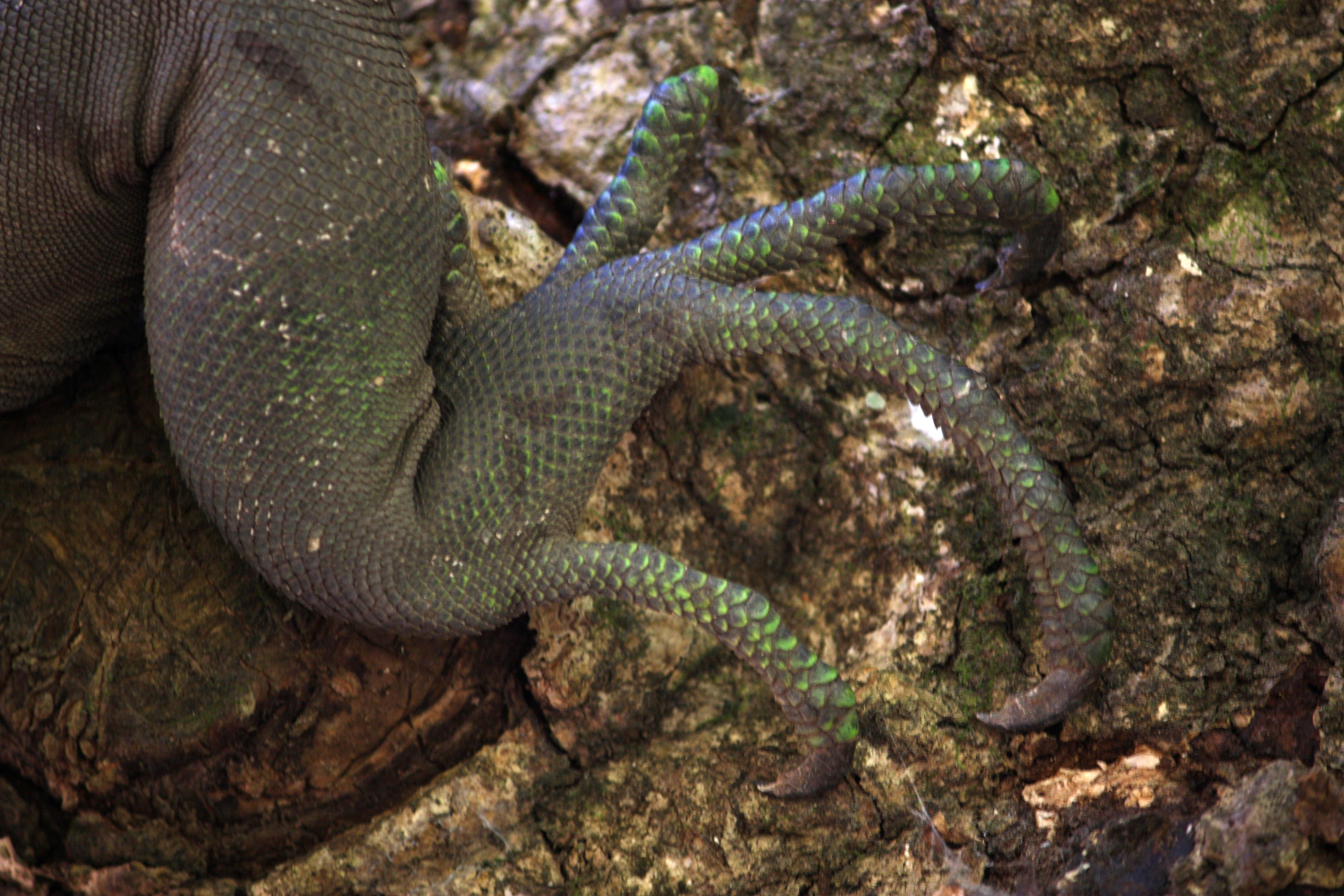 Closeup of hind foot of Lesser Antillean Iguana (Iguana delicatissima). Near the Coulibistrie River, Dominica.